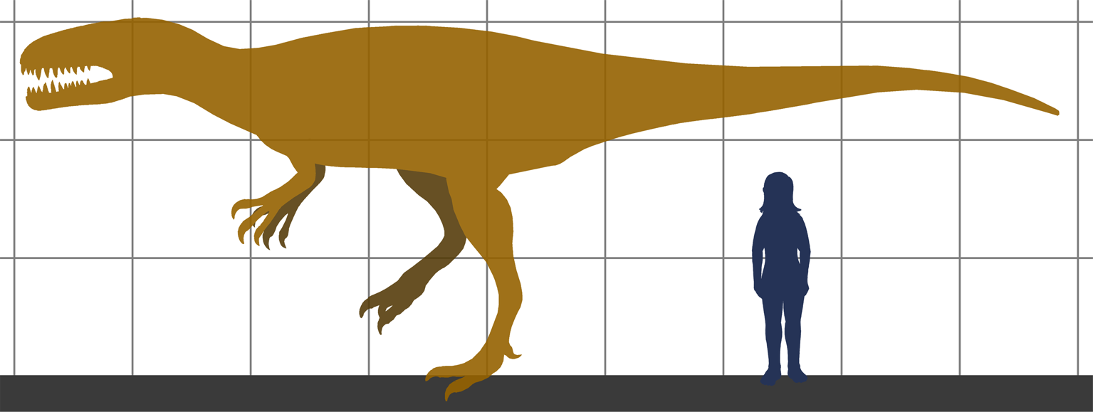 Size comparison between Megalosaurus bucklandii (Dinosauria, Theropoda, Spinosauroidea, Megalosauridae) and a human.